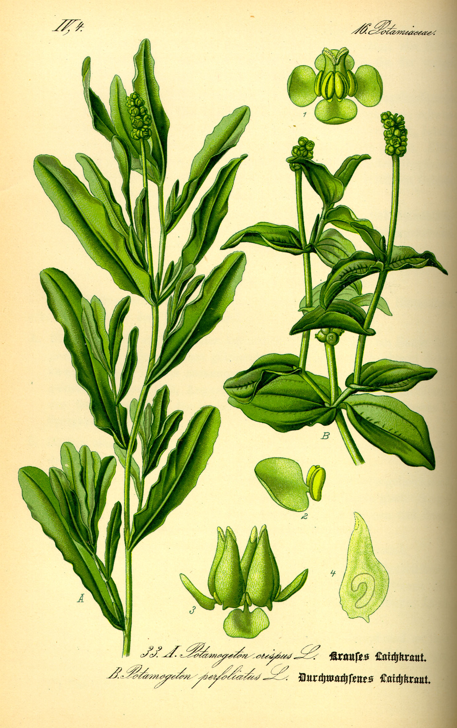 33.A. Potamogeton crispus L. - Curly pondweed 33.B. Potamogeton perfoliatus L. - Claspingleaf pondweed